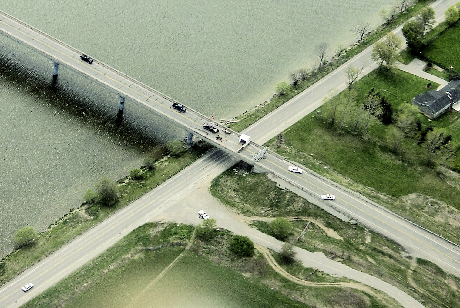 Native blockade of Highway 6 over Grand River in Caledonia